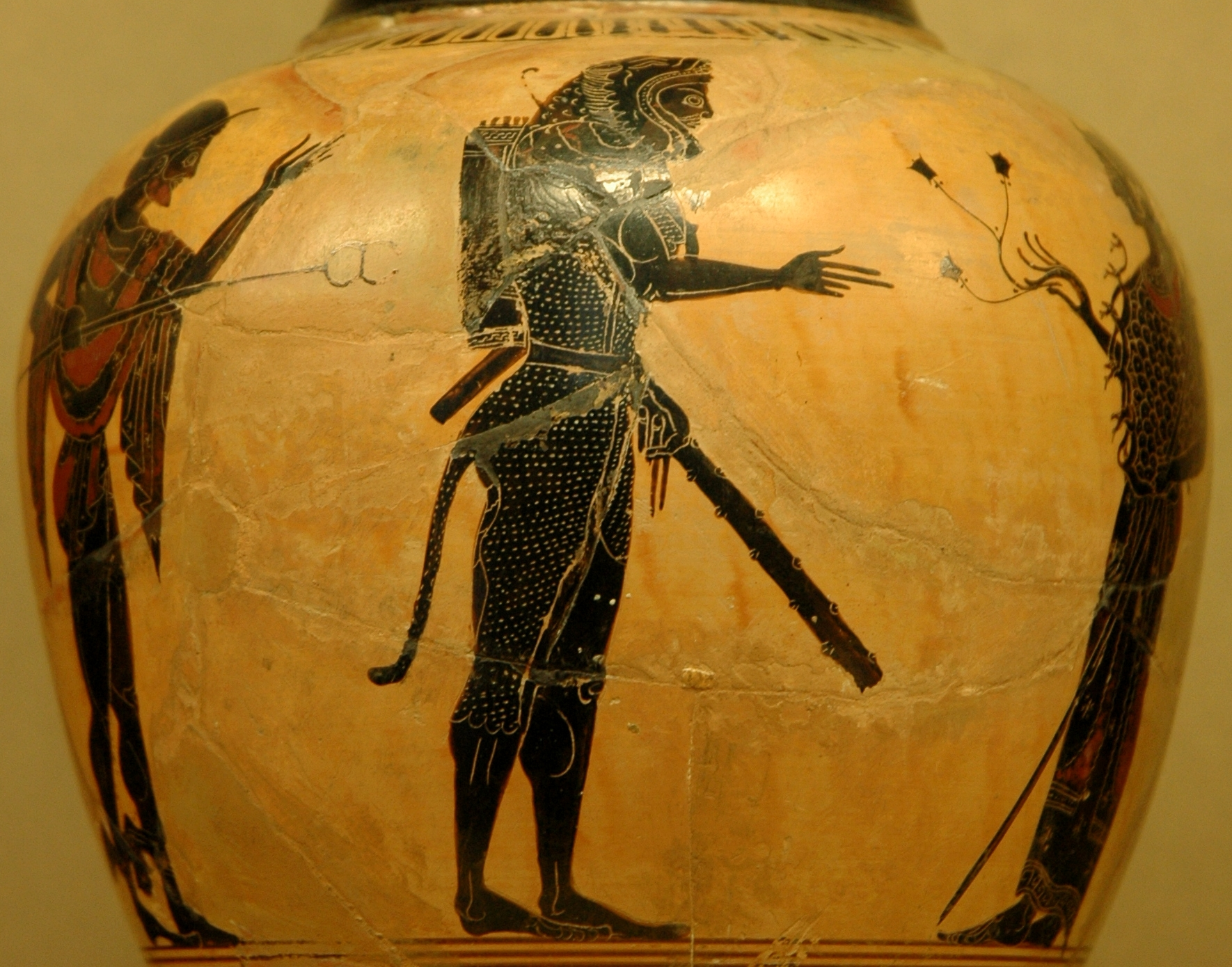 Hermes (on the left) and Athena (on the right) welcoming Heracles to Olympus. Black-figure oenochoe, ca. 520 BC.